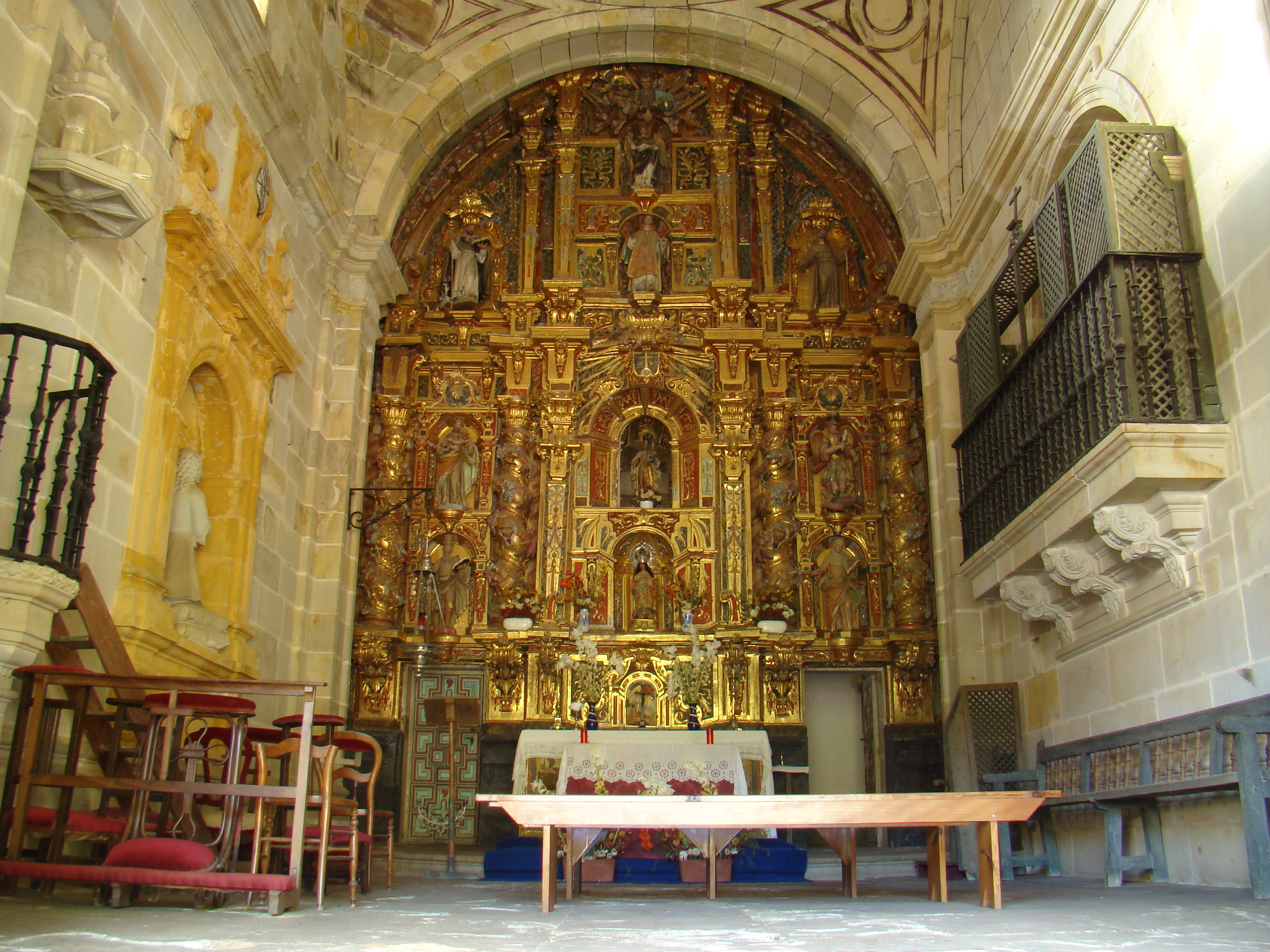 Bárcena de Cicero (Cantabria, Spain). Barroque altarpiece dated in 1746 whose author is Raimundo Vélez del Valle, in collaboration with the joiner Bernardino de la Vega Jado of the church of Carmen or chapel belonging to the noble house built for Lorenzo de Rugama in the middle of the 18th century.